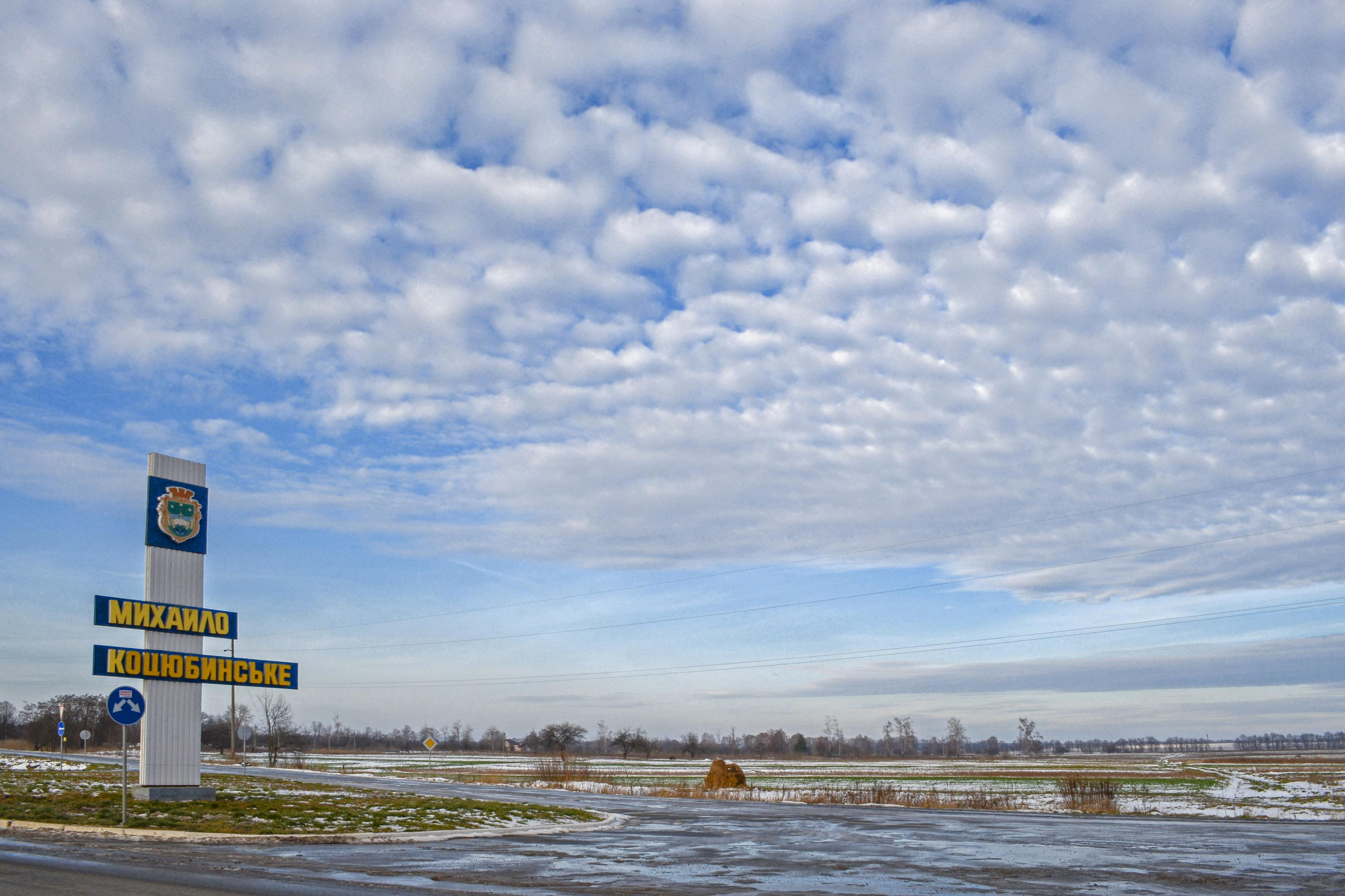 Mykhailo-Kotsiubynske, Chernihiv Raion, Chernihiv Oblast, Ukraine Цю фотографію було зроблено в рамках Вікіекспедиції Чернігів — Михайло-Коцюбинське — Чернігів.